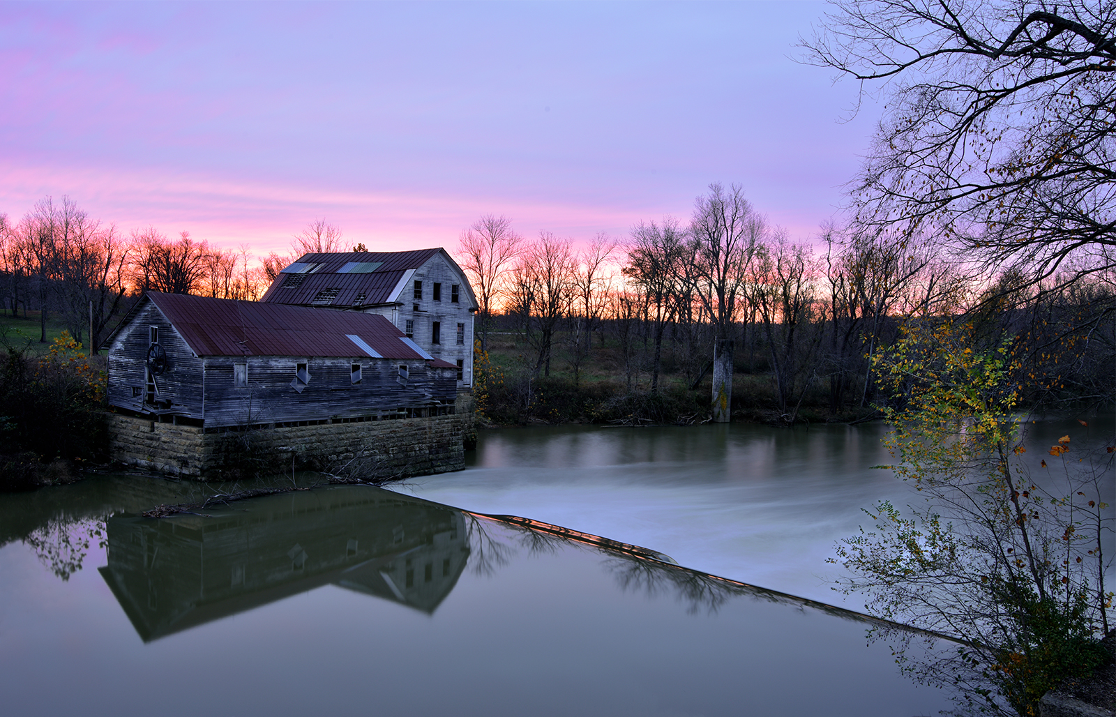 Once a grist mill, now abandoned.